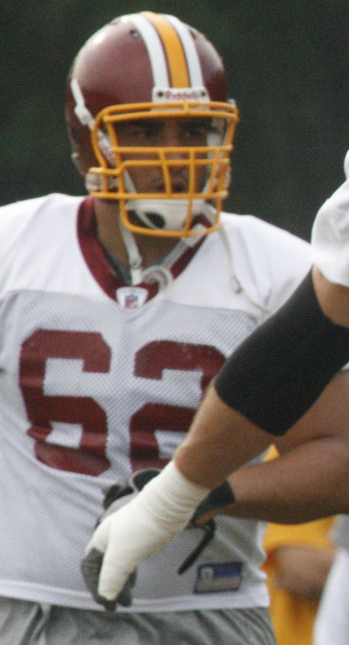 A picture of Washington Redskins OT Devin Clark during training camp